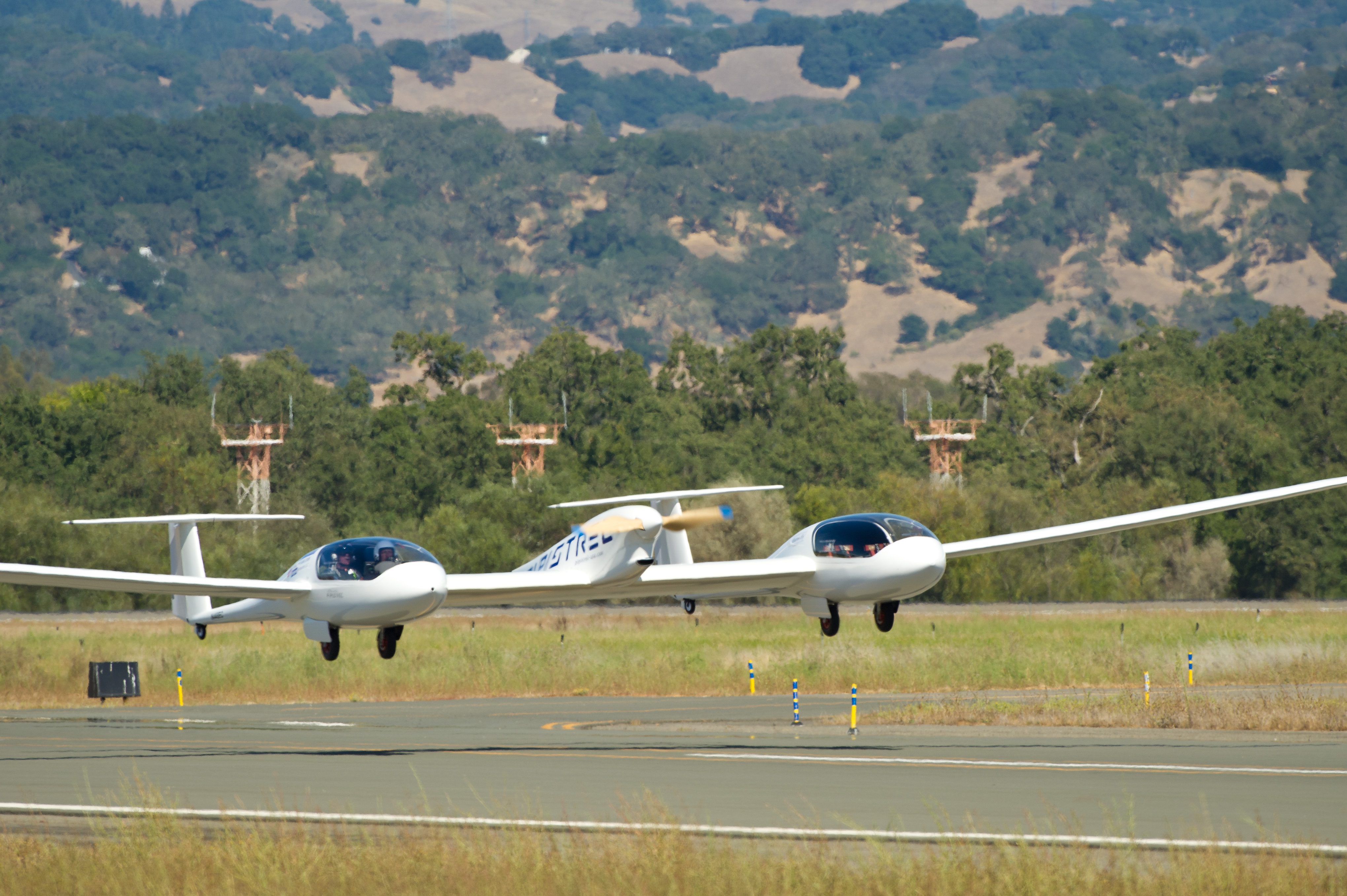 The Pipistrel-USA, Taurus G4 aircraft takes off during the 2011 Green Flight Challenge, sponsored by Google, at the Charles M. Schulz Sonoma County Airport in Santa Rosa, Calif. on Monday, Sept. 26, 2011. NASA and the Comparative Aircraft Flight Efficiency (CAFE) Foundation are having the challenge with the goal to advance technologies in fuel efficiency and reduced emissions with cleaner renewable fuels and electric aircraft.